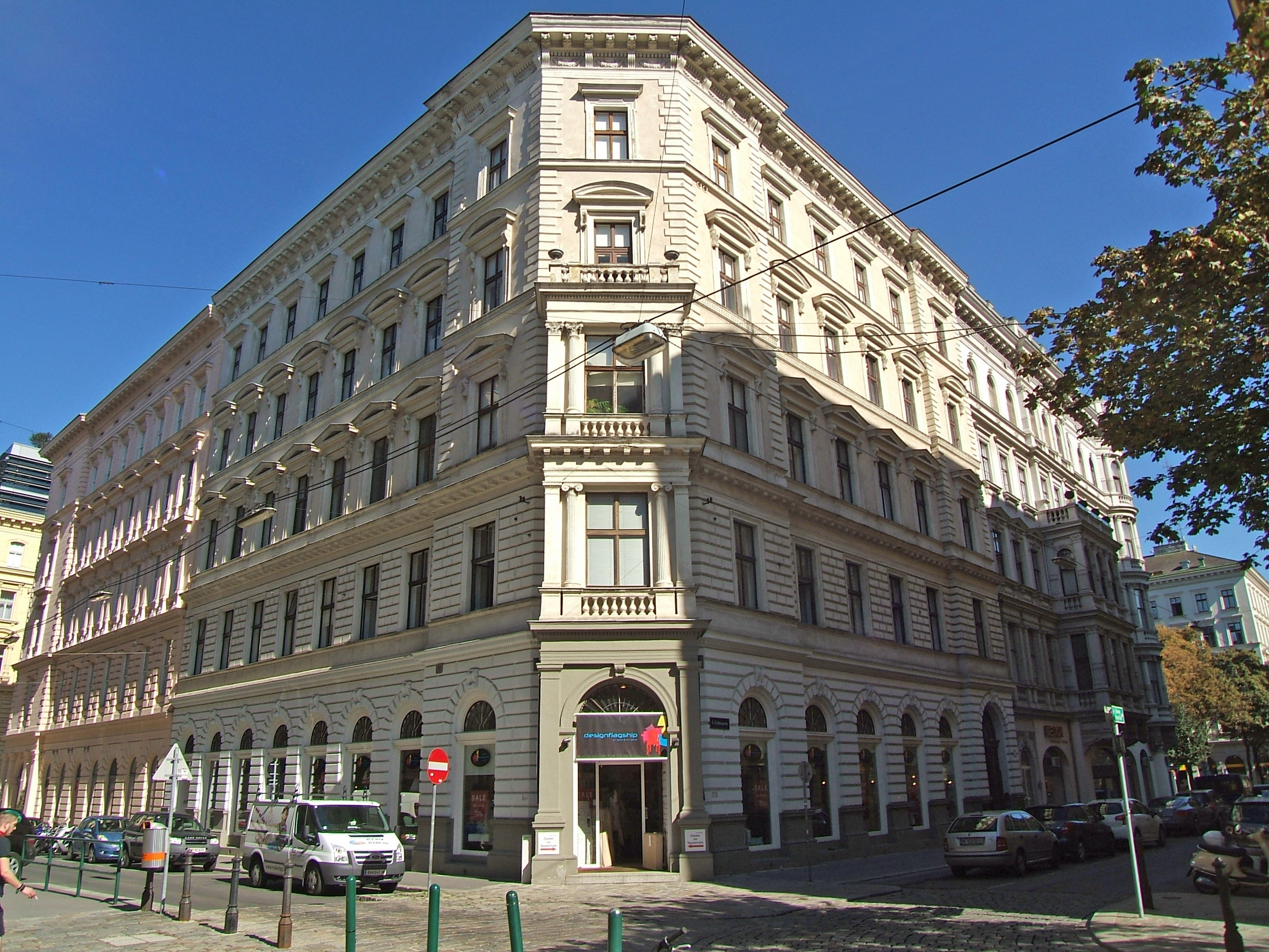 Tenement in Vienna, 1st district Fichtegasse 5